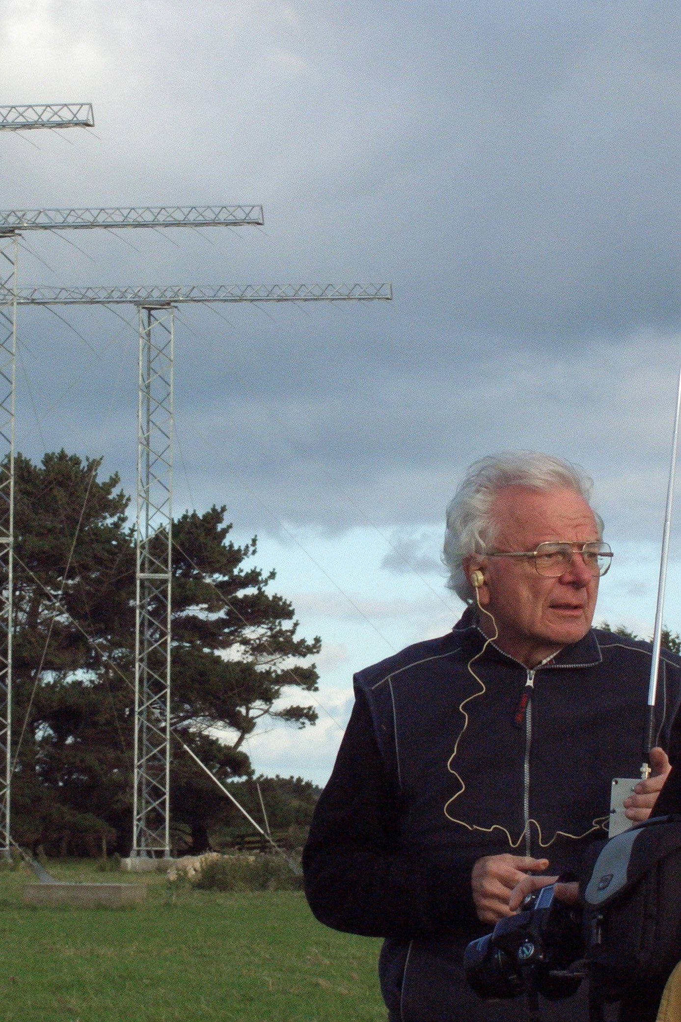 Unwin scientific radar facility at Awarua, near Bluff. Low Frequency Electromatic Research Ltd director Emeritus Prof Dick Dowden = Richard Dowden, of Dunedin, checks for local radio interference, 12/02/2009